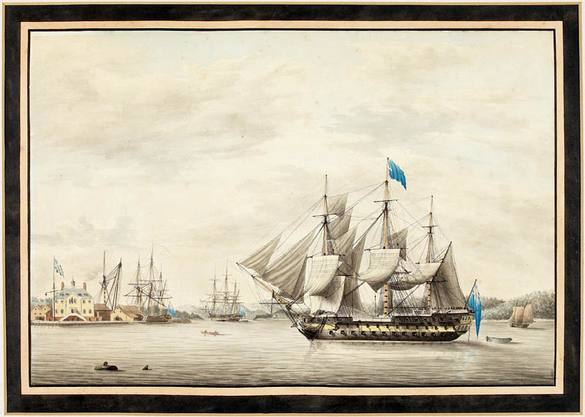 HMS Asia in Halifax Harbour, 1797